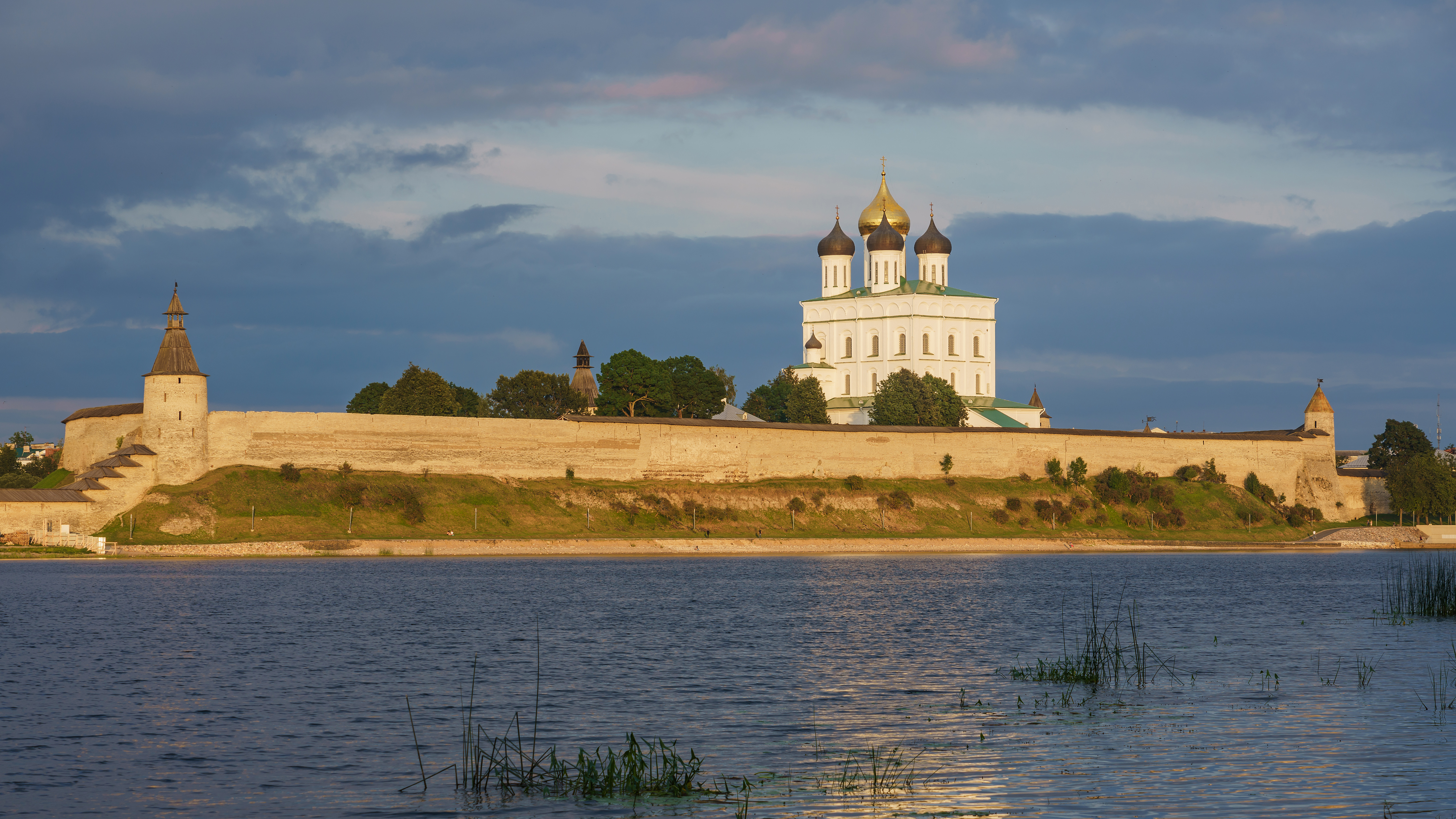 View of the Kremlin before sunset in Pskov, Russia